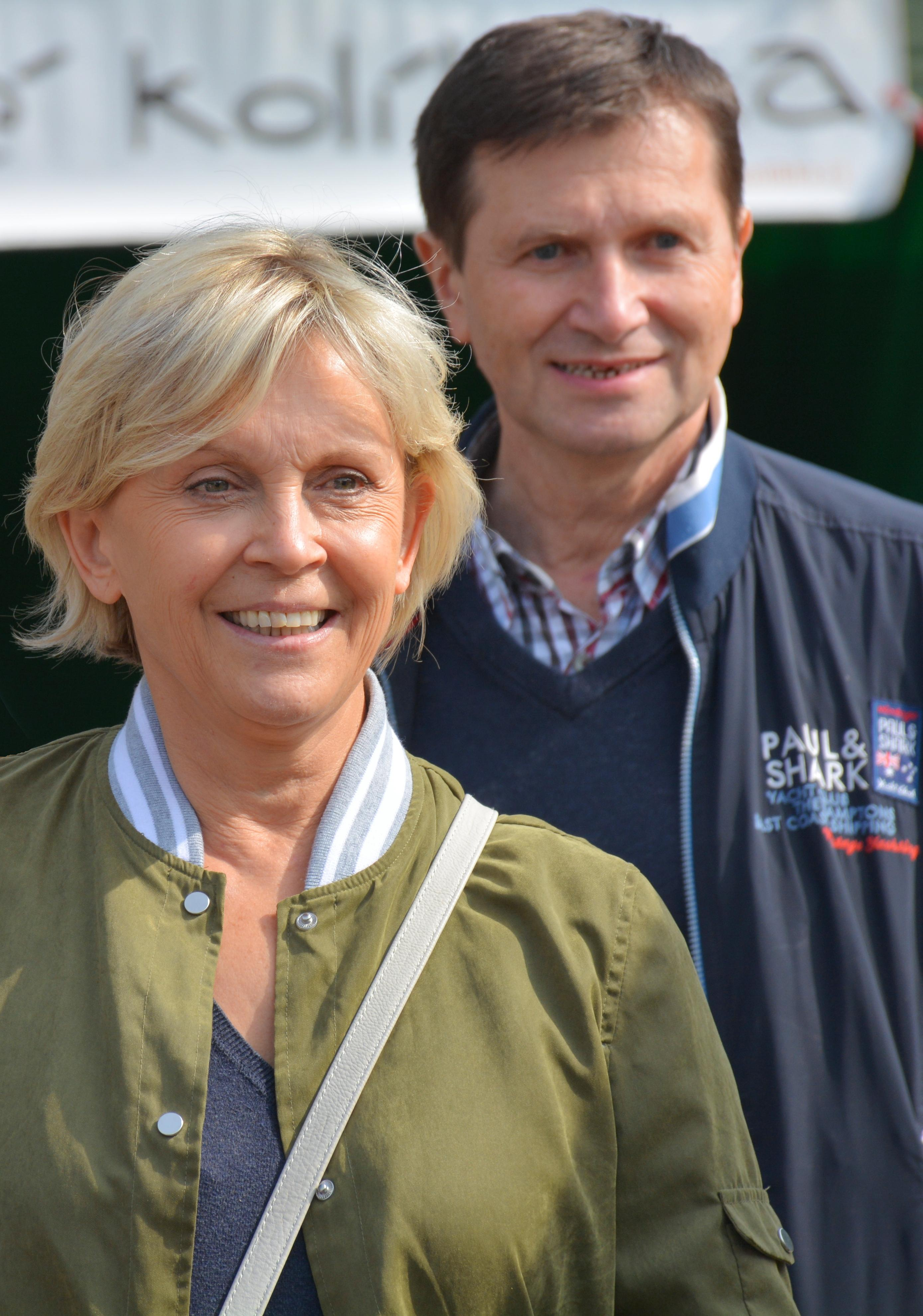 Miluše Šplechtová and Jan Hrušínský, Czech actors